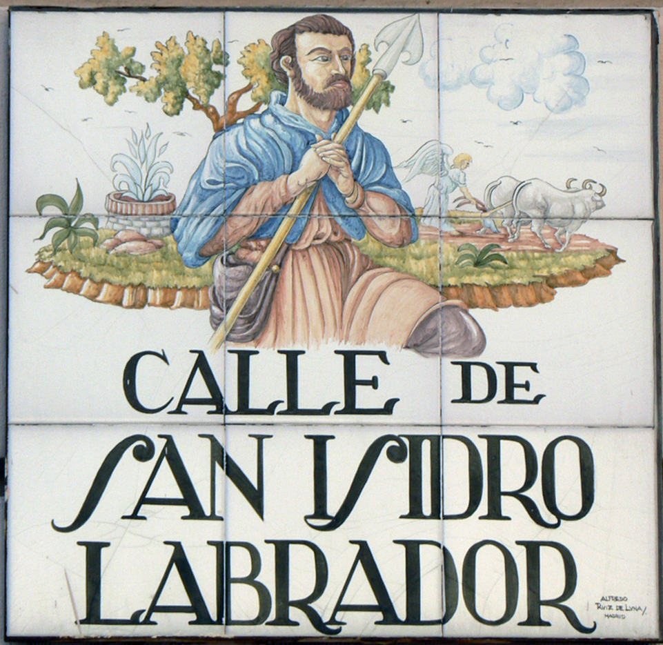 Sign of Calle de San Isidro Labrador (street, Centro district) in Madrid (Spain).